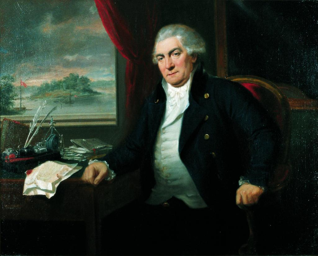 Portrait of Frédéric de Coninck (1740-1811), Dutch-Danish trader